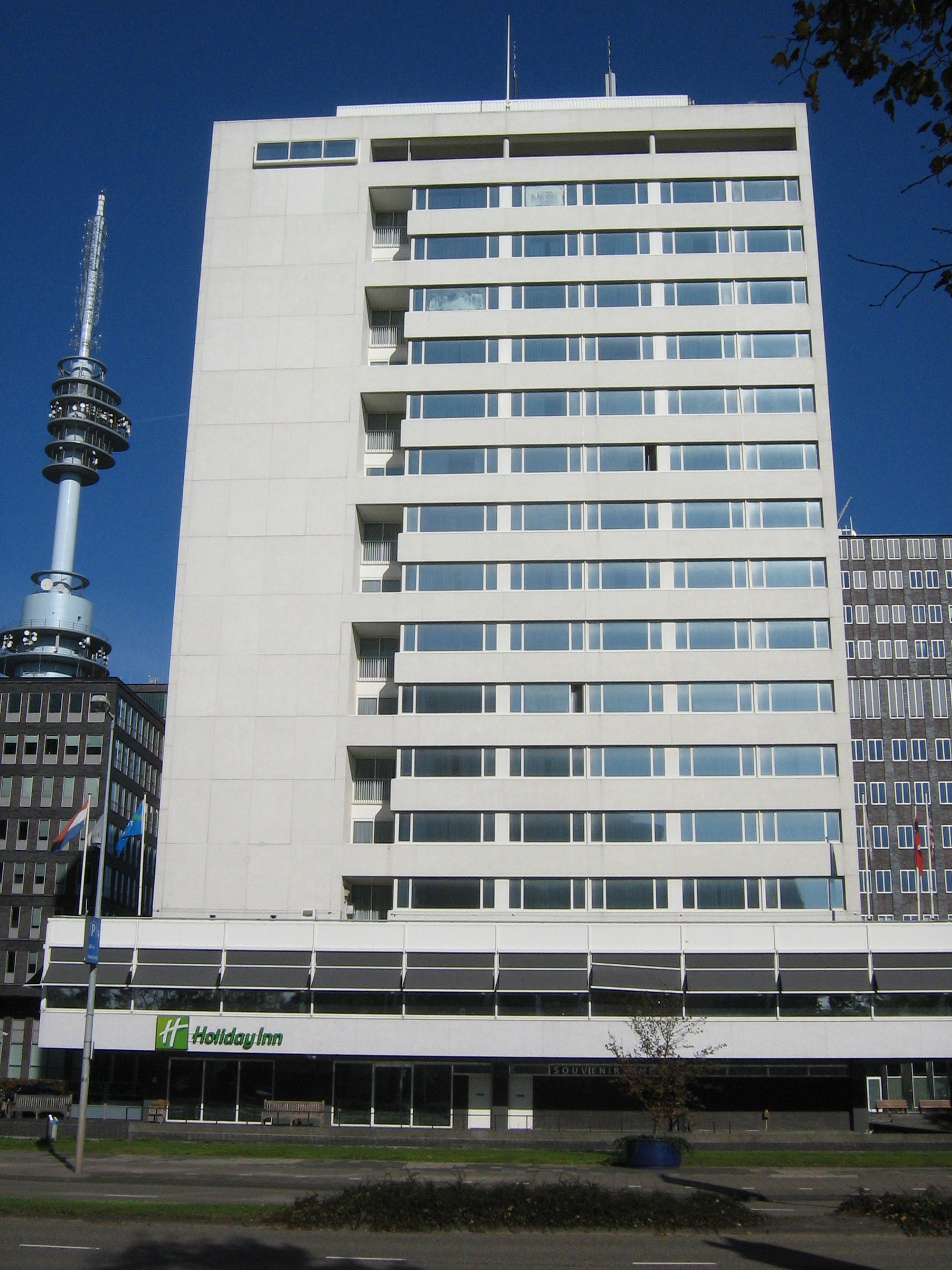 Holiday Inn hotel at 2 De Boelelaan, Amsterdam, the Netherlands, seen from due south.